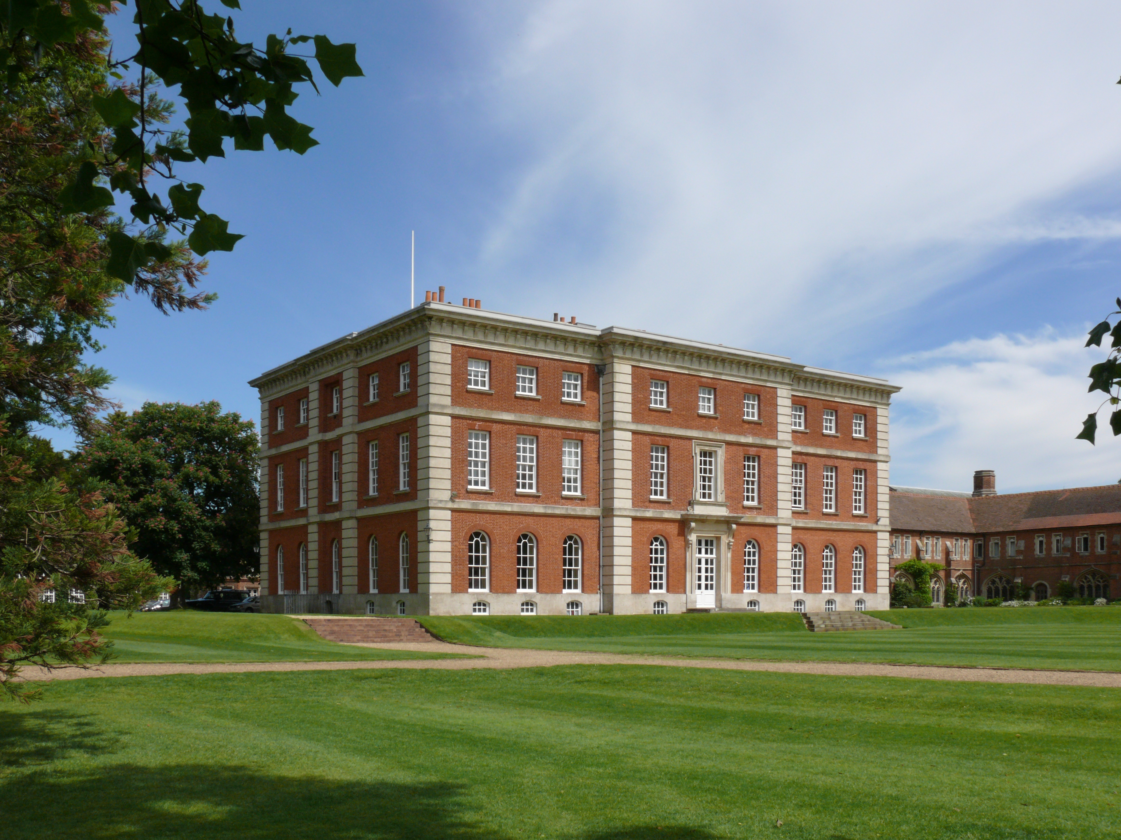 Radley Hall, Radley, Oxfordshire (formerly Berkshire), England, seen from the south west. Completed in 1727 as a country mansion. Since 1847 it has been the main building ("the Mansion") of Radley College.